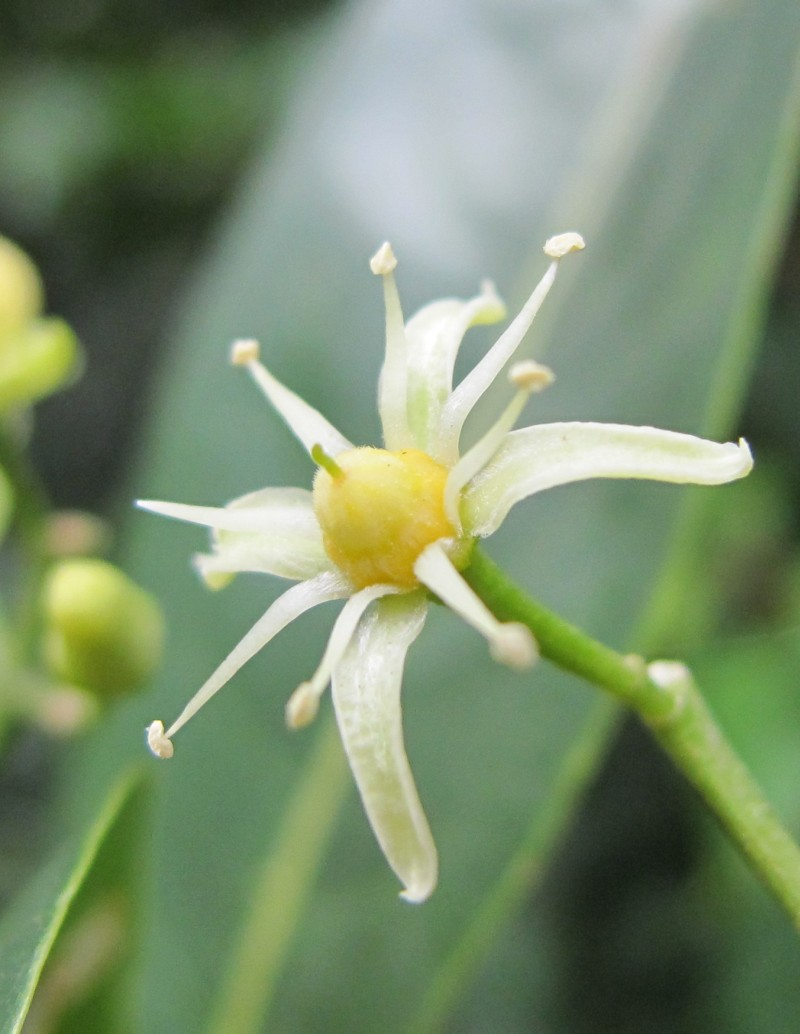 Flowers of Acronychia pedunculata at Udawattakele Forest, Kandy, Sri Lanka.